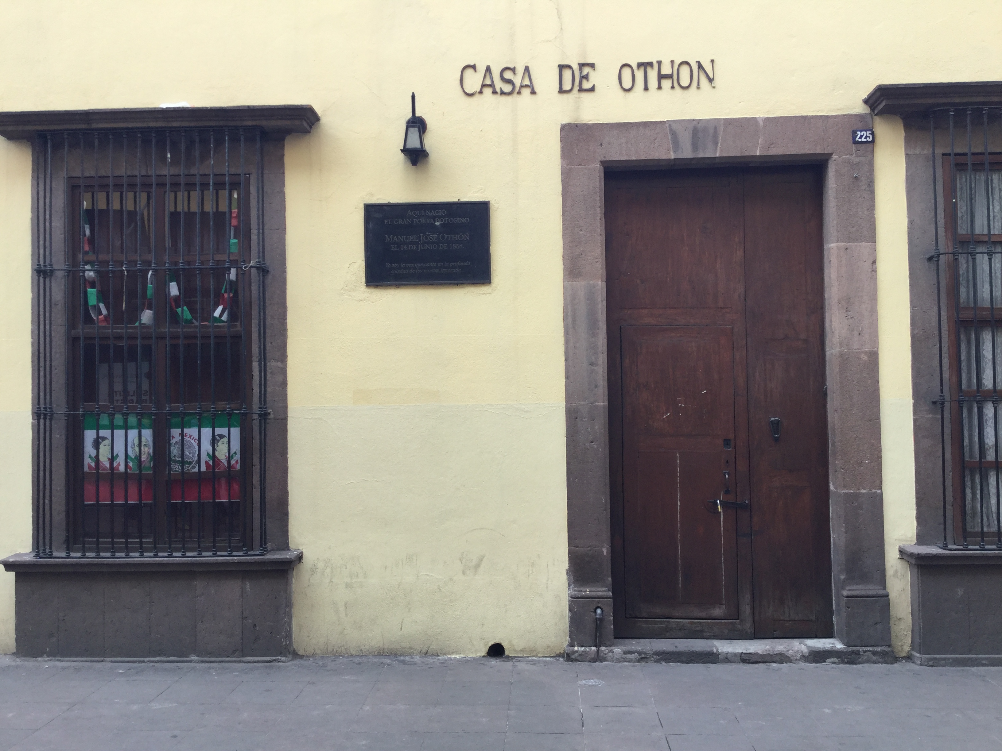 House where was born the potosinian poet Manuel Jose Othón in June 14, 1858.